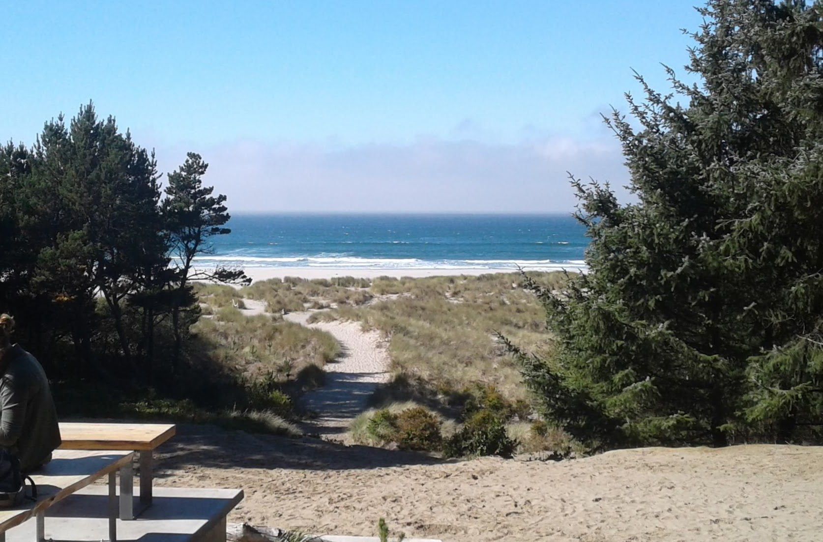 Photo at Camp Westwind, Oregon in October 2018